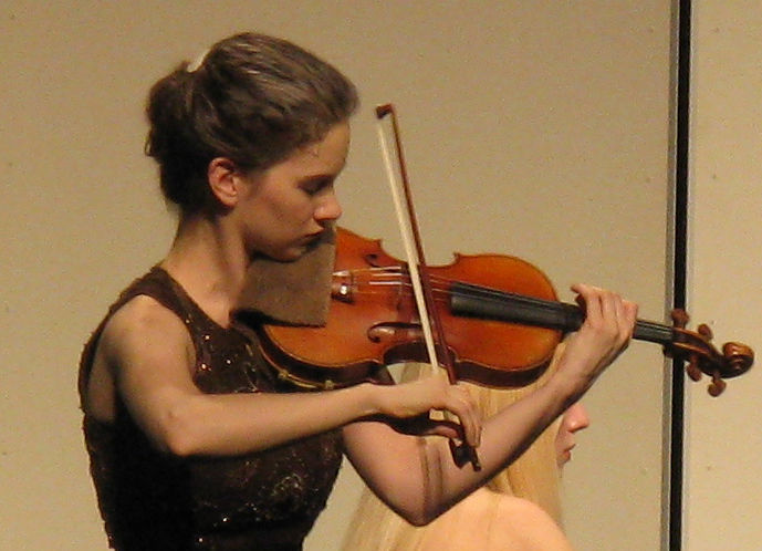 Hilary Hahn, violin, and Valentina Lisitsa, piano, Kuss Auditorium, Clark State Performing Arts Center, Springfield, Ohio, March 3, 2009